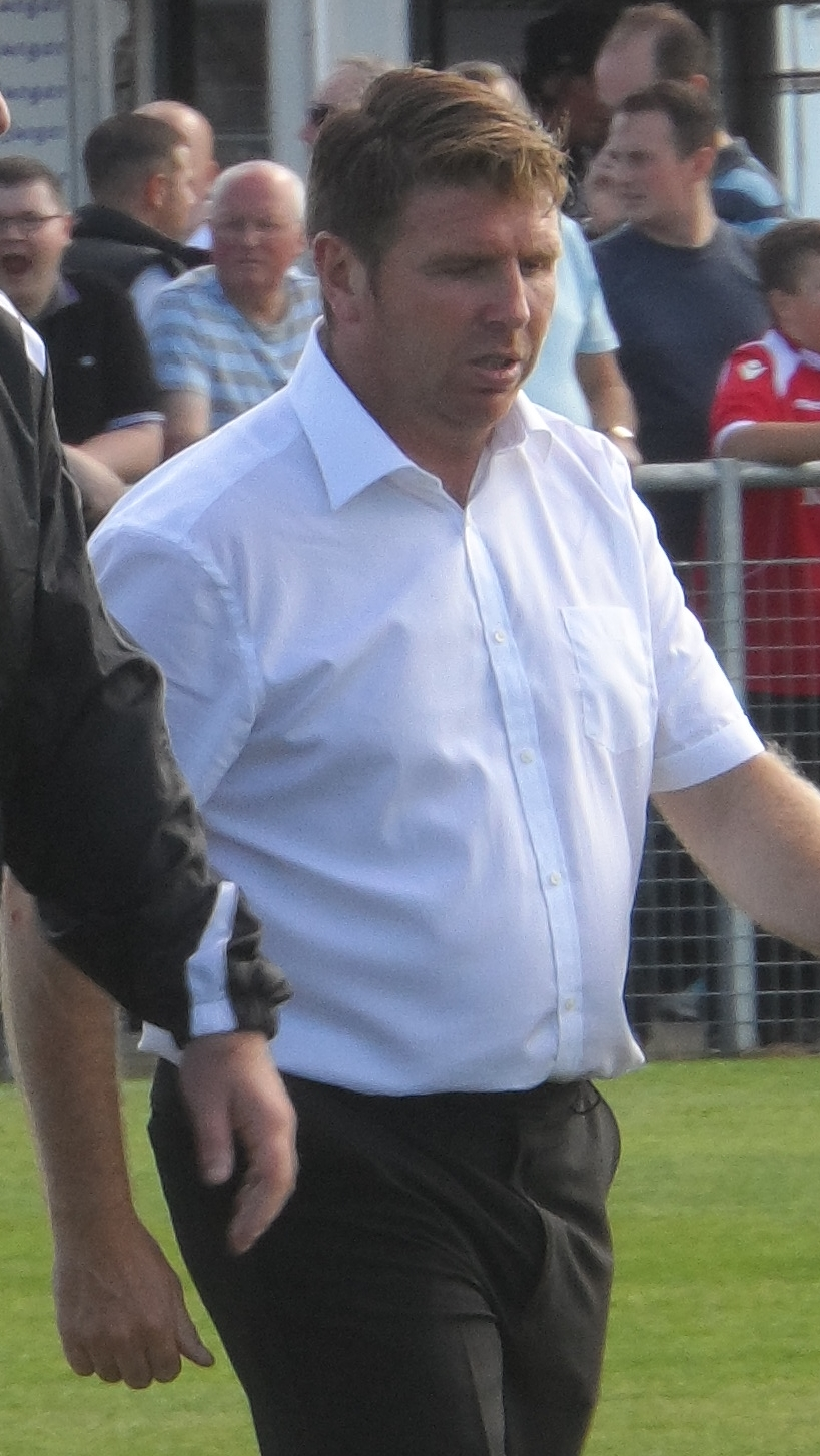 Martin Gray managing Darlington 1883 against Bishop Auckland at Heritage Park, Bishop Auckland on 18 August 2012